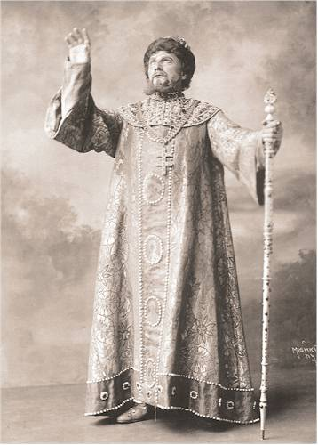 Adamo Didur as Boris Godunov